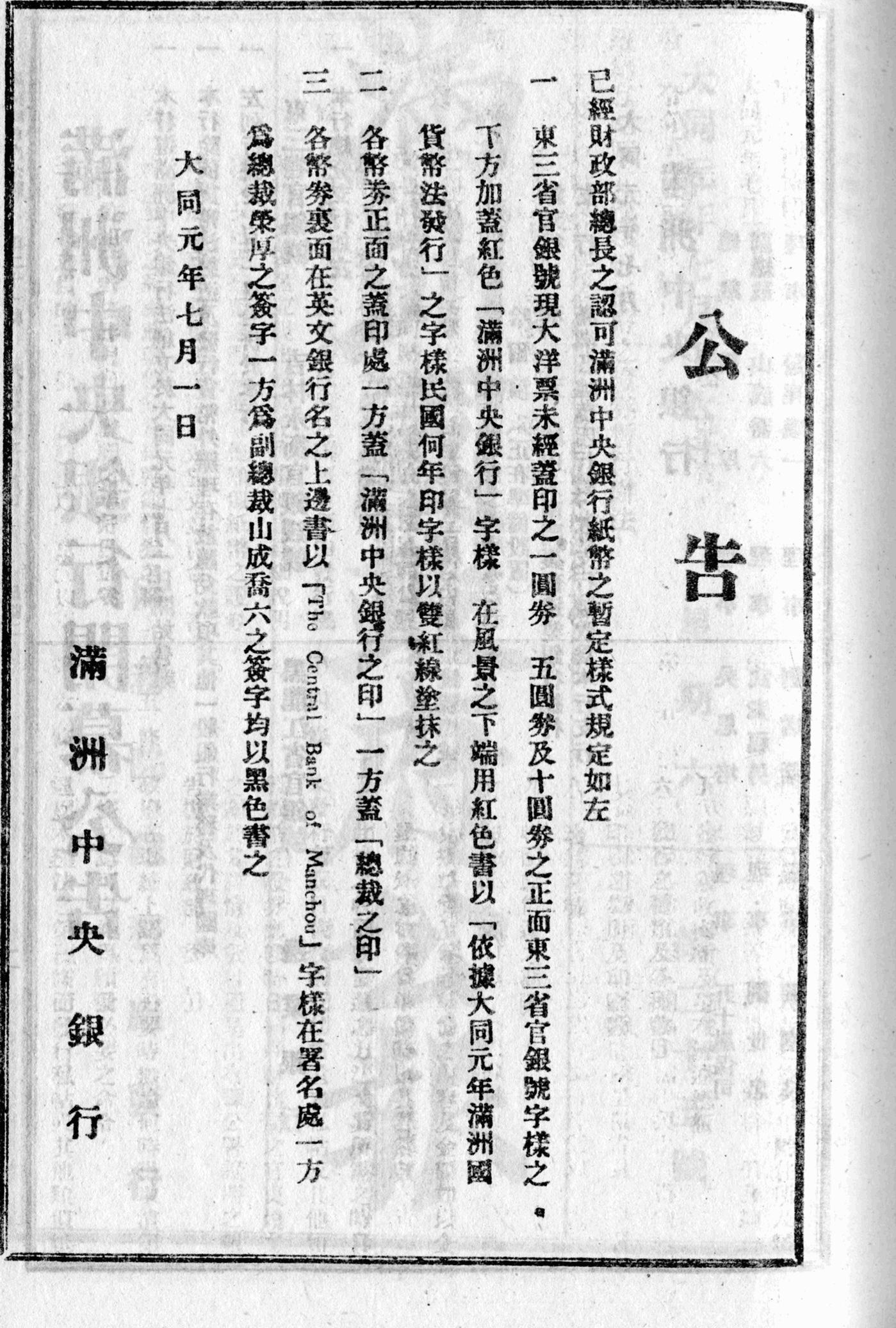 Notice from the Manchu Chuo Ginko about the provisional Manchukuo yuan issues, dated July 1 1932 and printed on Manchukuo Government Register issue 24, July 13 1932. 粵語: 1932年滿洲中央銀行公告銀紙設計